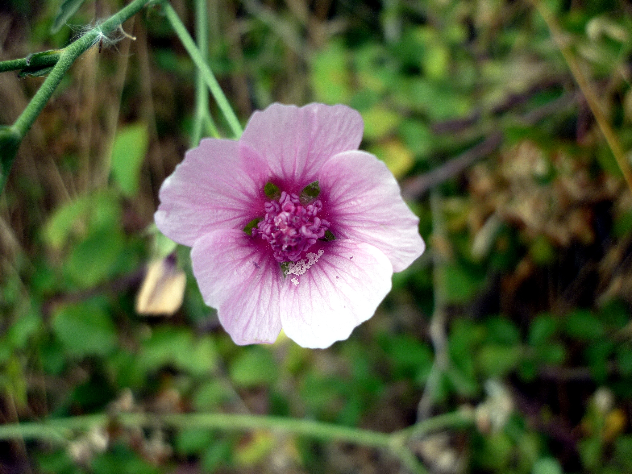 Althaea cannabina. In Torà (Segarra-Catalunya). To 580 m. altitude